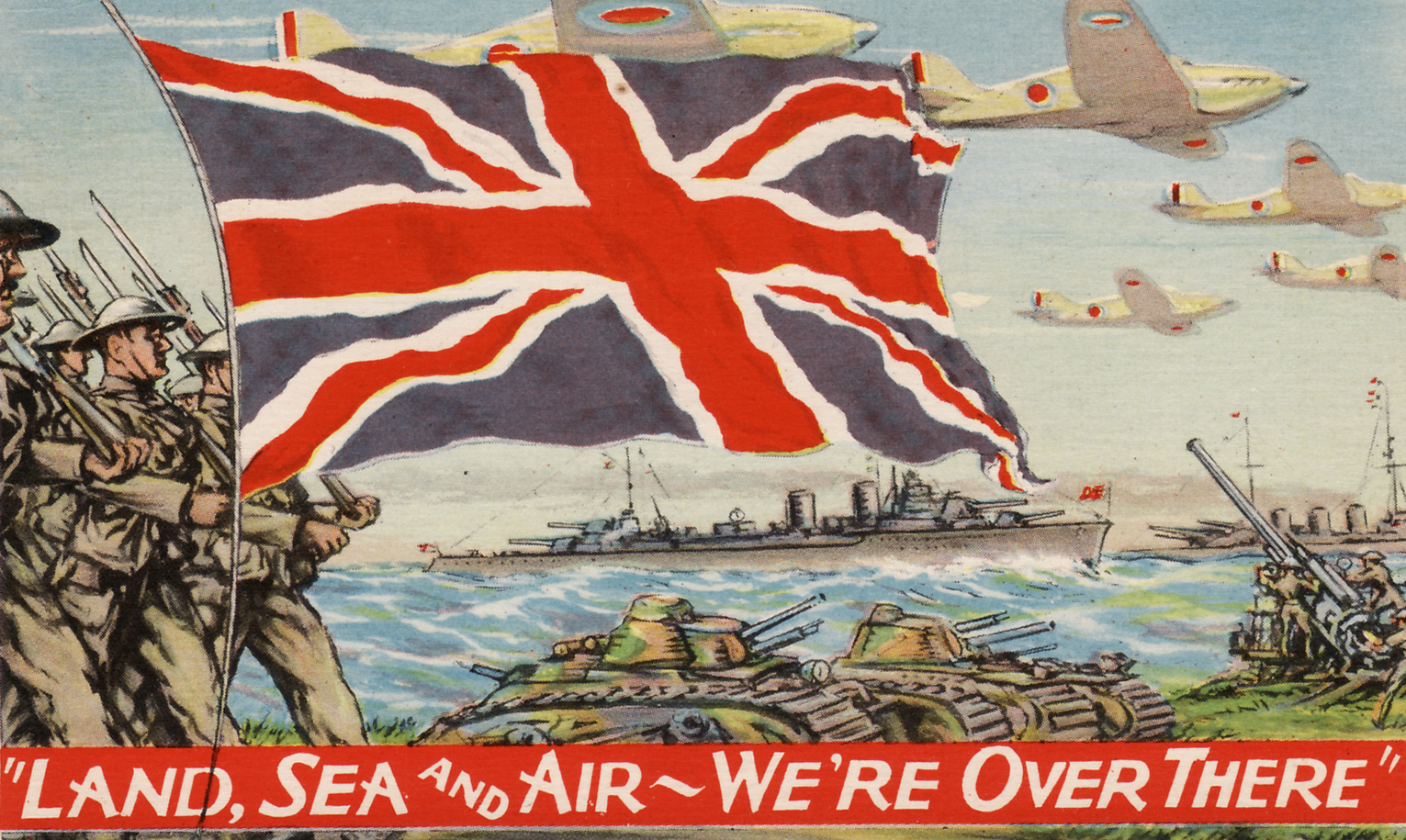 Canadian World War II poster.